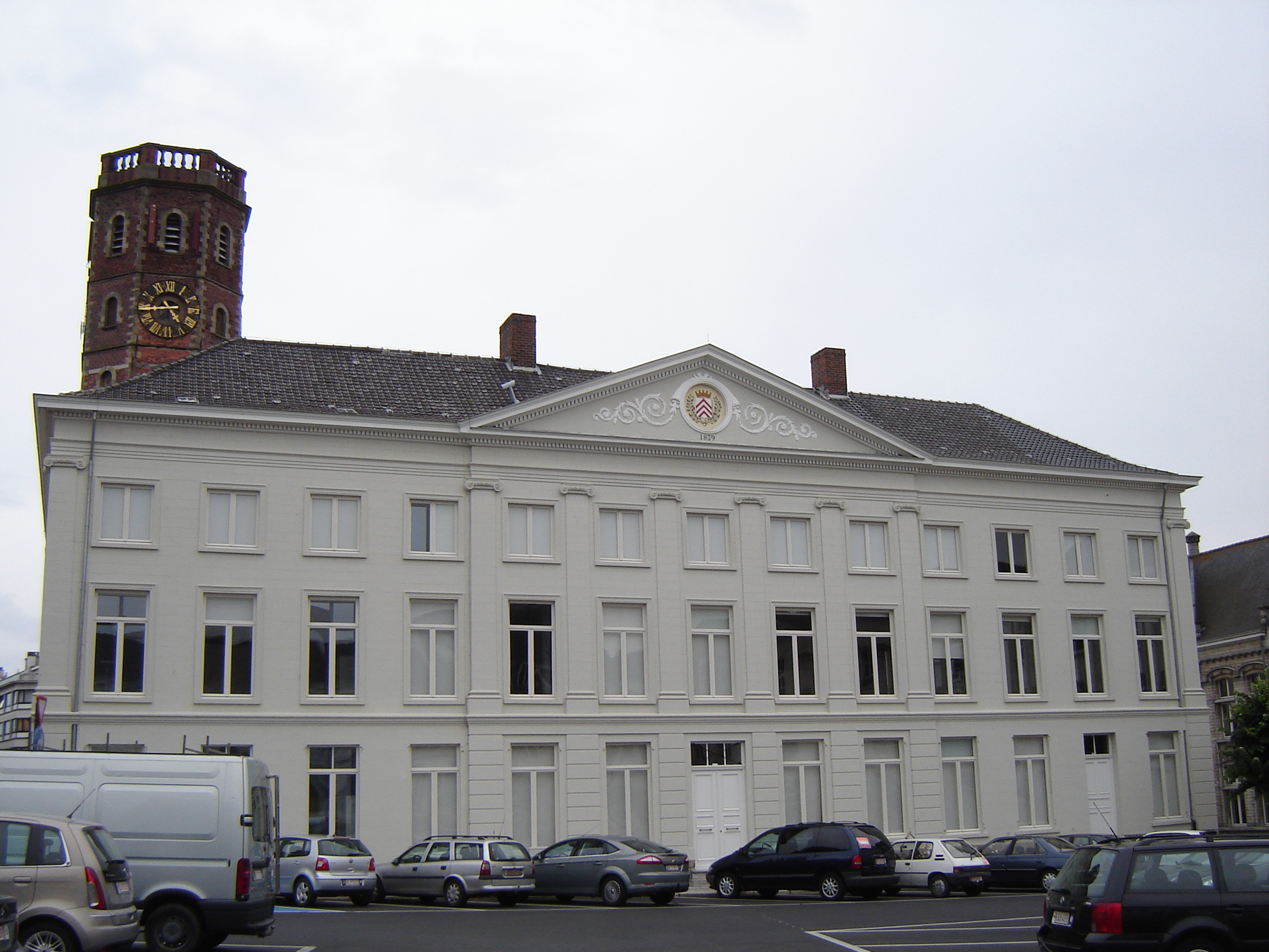 Rear side of the city hall and belfry of Menen. Menen, West Flanders, Belgium